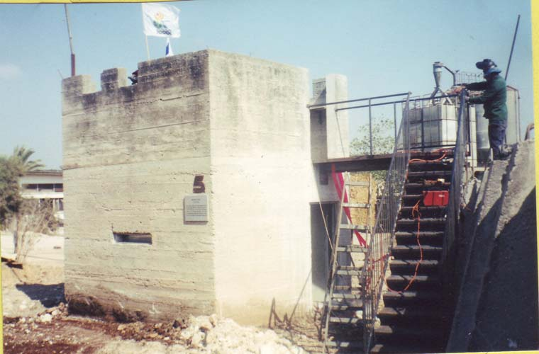 Heritage Trail sites at Kibbutz Ramat Yohanan, Architecture of Israel